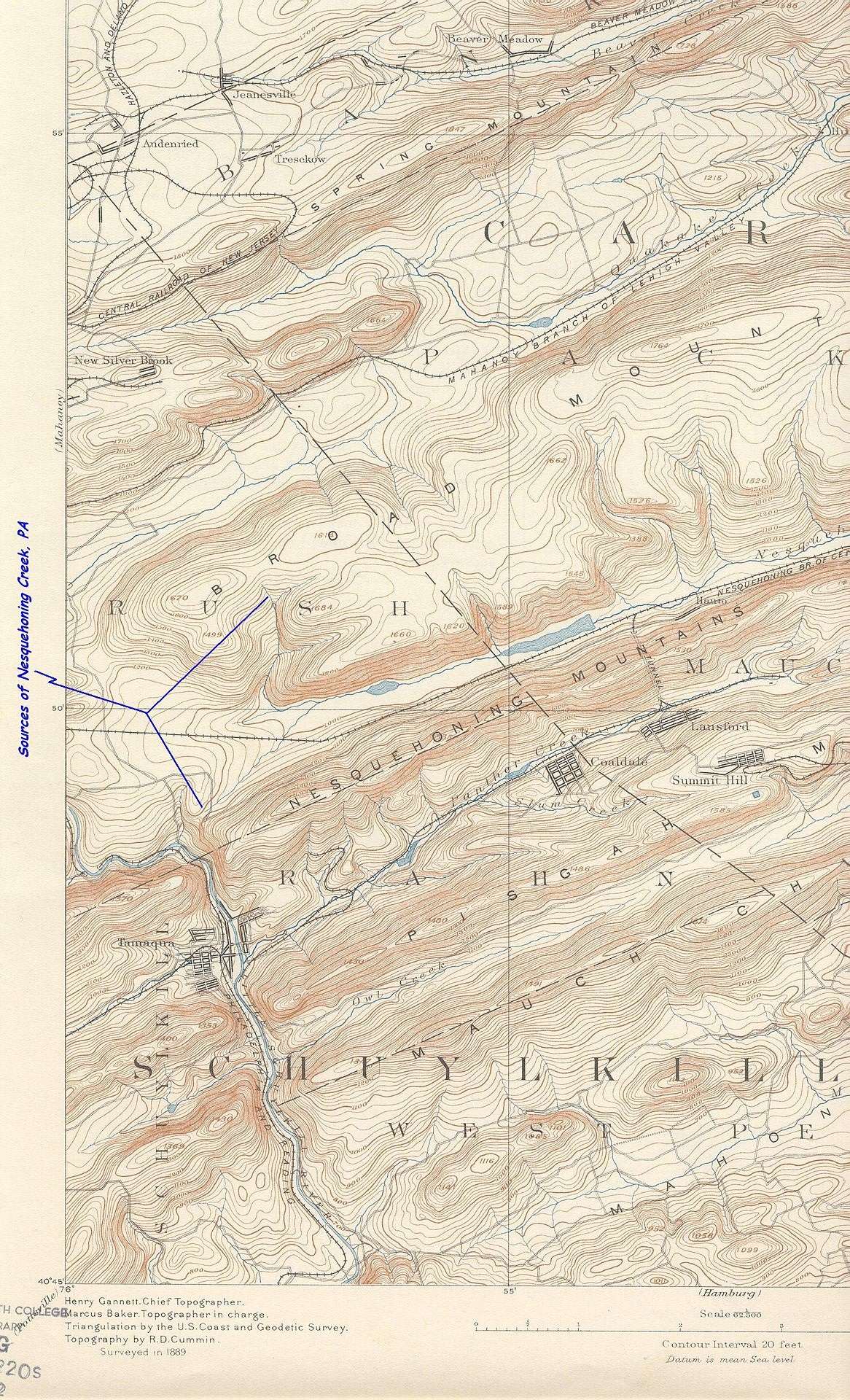 Re-rotated (unrotated) re-upload of File:Sources of Nesquehoning creek from hzlt93sw-Rot90cw.JPG.• This map serves the same function, but with the sources of the Nesquehoning written sideways.• This version shows various drainage basins, the drainage divides between the Lehigh River basin and the Little Schuylkill River basin in the Ridge-and-Valley Appalachians folded landscapes of this important industrial region and the drainage/river systems which inhibited transportation. • This orientation is useful for displaying the complex rail network worked into the mountainous terrain (still important and in use today), the key drainage basins and especially the ridges with the drainage divides involving two counties above the historic coal mining and railroad communities of:Weatherly, PA, Beaver Meadows, PA, Delano, PA, Hometown, PA, Tamaqua, PA, Coaldale, PA, Lansford, PA, and extremely influential in the bootstrapping of the U.S. Industrial Revolution. Tamaqua co-ords: 40° 47′ 55″ N, 75° 57′ 59″ W 40.798611, -75.966389 Broad Mountain co-ords: 405343N 0754944W Tower, Carbon County, Pennsylvania 405435N 0754824W Northern Peak, Carbon County 404649N 0760838W Southern Peak, Schuylkill County, Pennsylvania